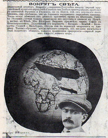 Vedrenes_1